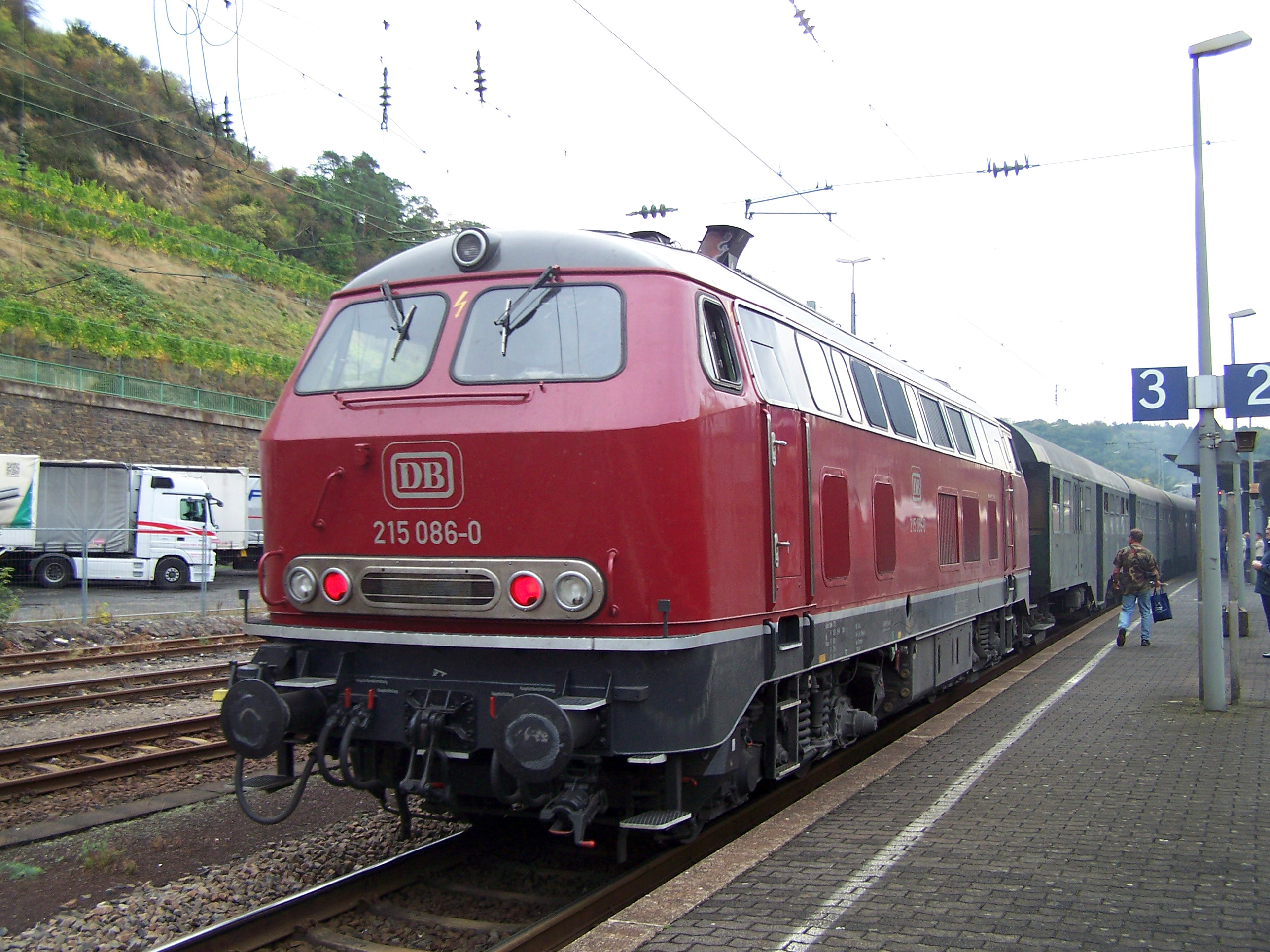 Historical diesel locomotive 215 086 with Umbau-Wagen, Class 4yg at the event 100 years of Kasbachtalbahn in Linz am Rhein, October 2012